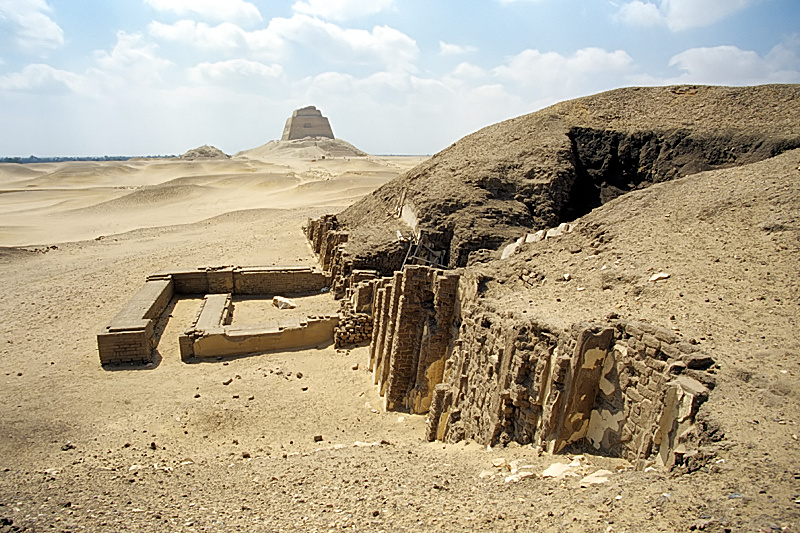 South side of the Mastaba 16 of Rahotep and Nofret, Meidum, Egypt